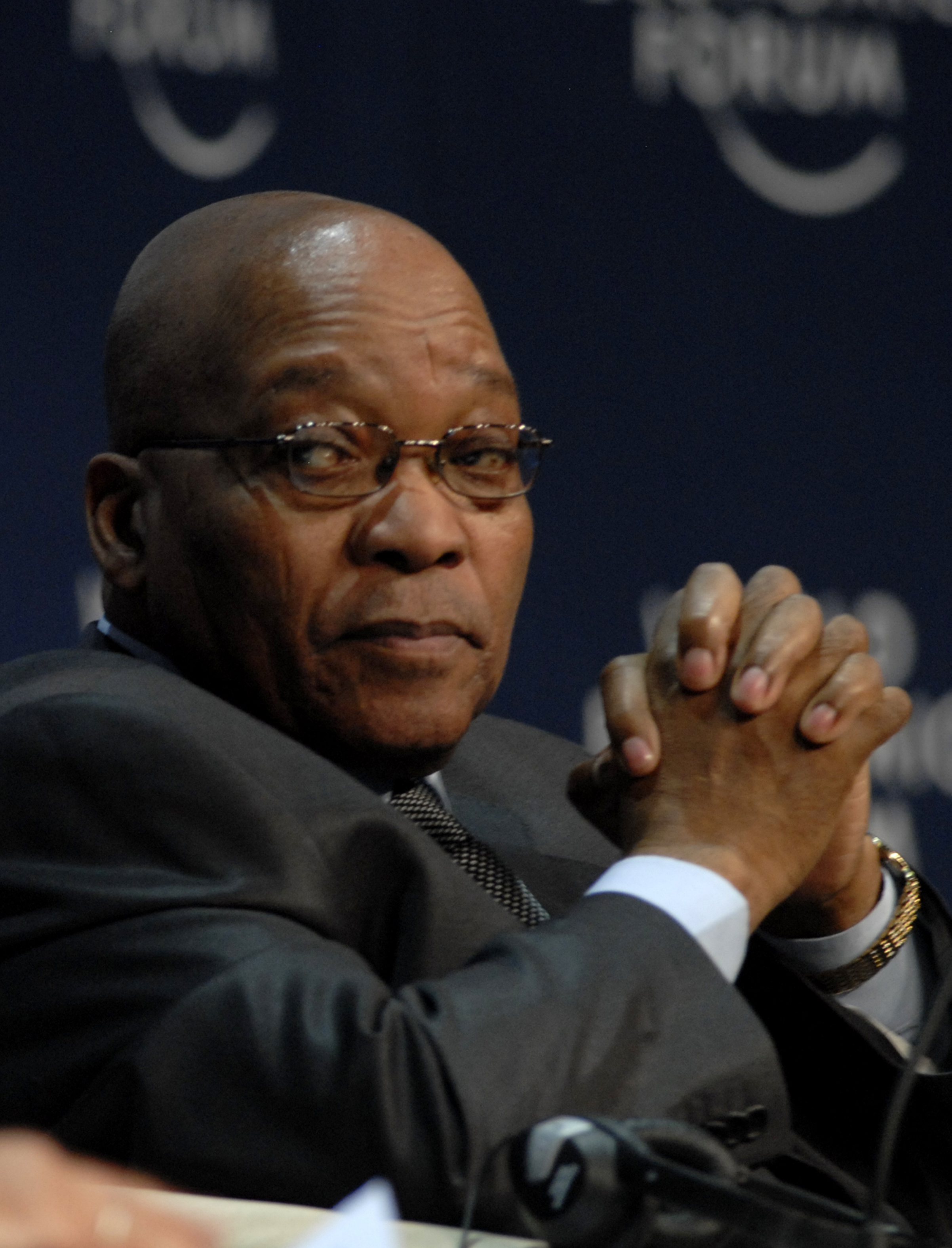 CAPE TOWN/SOUTH AFRICA, 10JUN2009 -Jacob Zuma, President of South Africa at the Opening Plenary on Africa and the New Global Economy at the World Economic Forum on Africa 2009 in Cape Town, South Africa, June 10, 2009